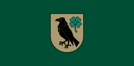 Flag of Preiļi Municipality, Latvia. The flag was adoted by the Preiļi municipal council on 26 April 2012.